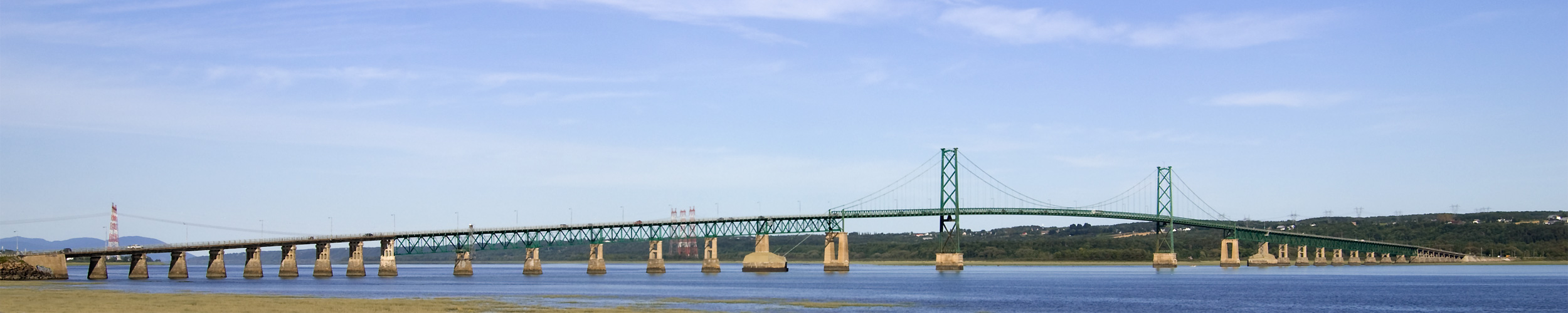 The Orléans island bridge seen from the shore between Québec and Montmorency falls